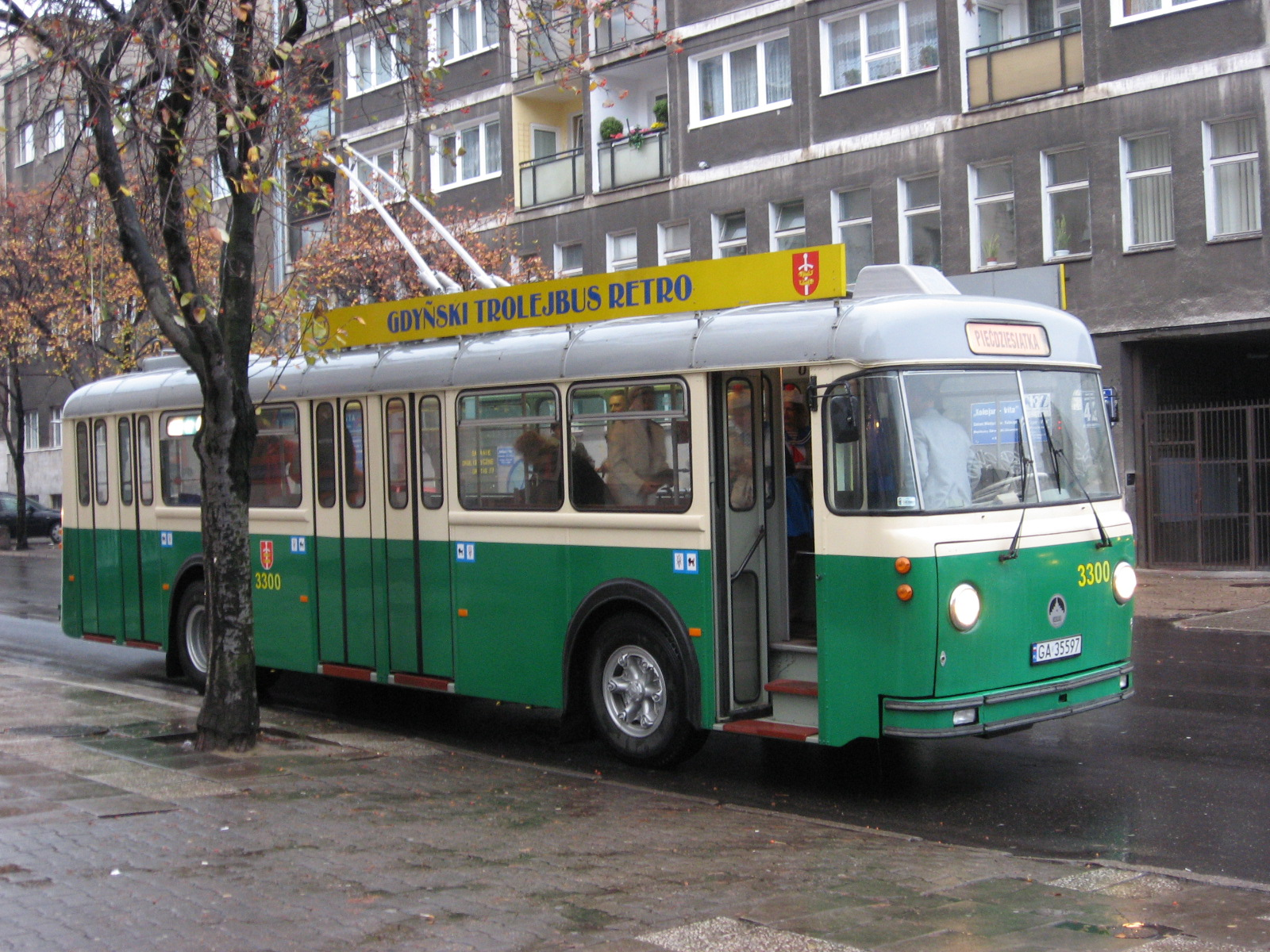 Retro trolleybus Saurer 4IILM in Gdynia, Poland. Built in 1957, trolleybus 3300 is ex-St. Gallen, Switzerland 128, acquired secondhand by Warsaw's trolleybus system in 1992 and later re-sold to Gdynia.